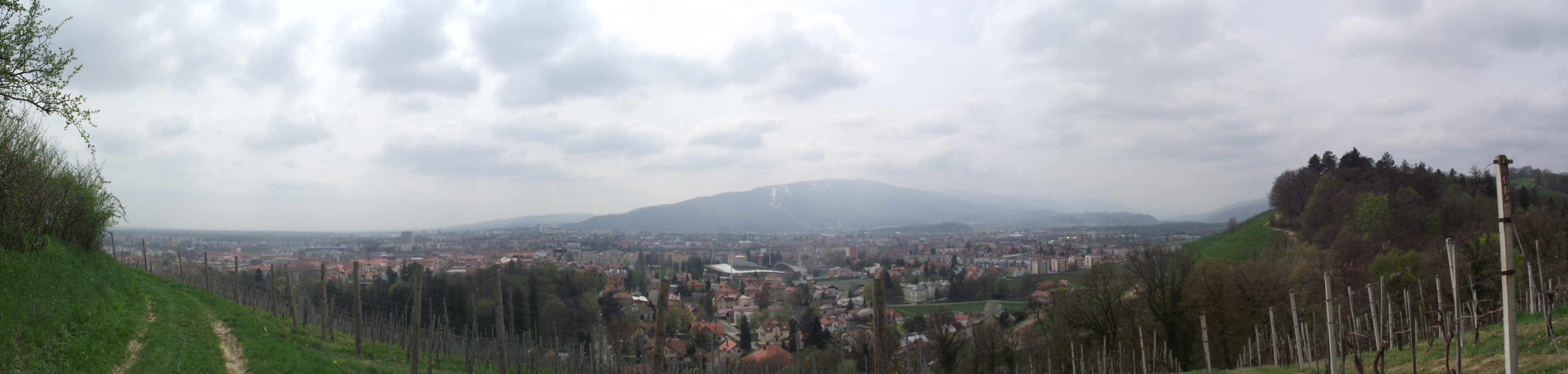 Maribor - St. Barbara's Church